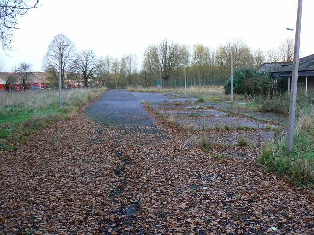 The entrance to RAF Compton Bassett RAF Compton Bassett had its origins in the Great War and remained operational through the Second World War until closing in 1964. The locality is now known as Lower Compton having been renamed following pressure from residents.